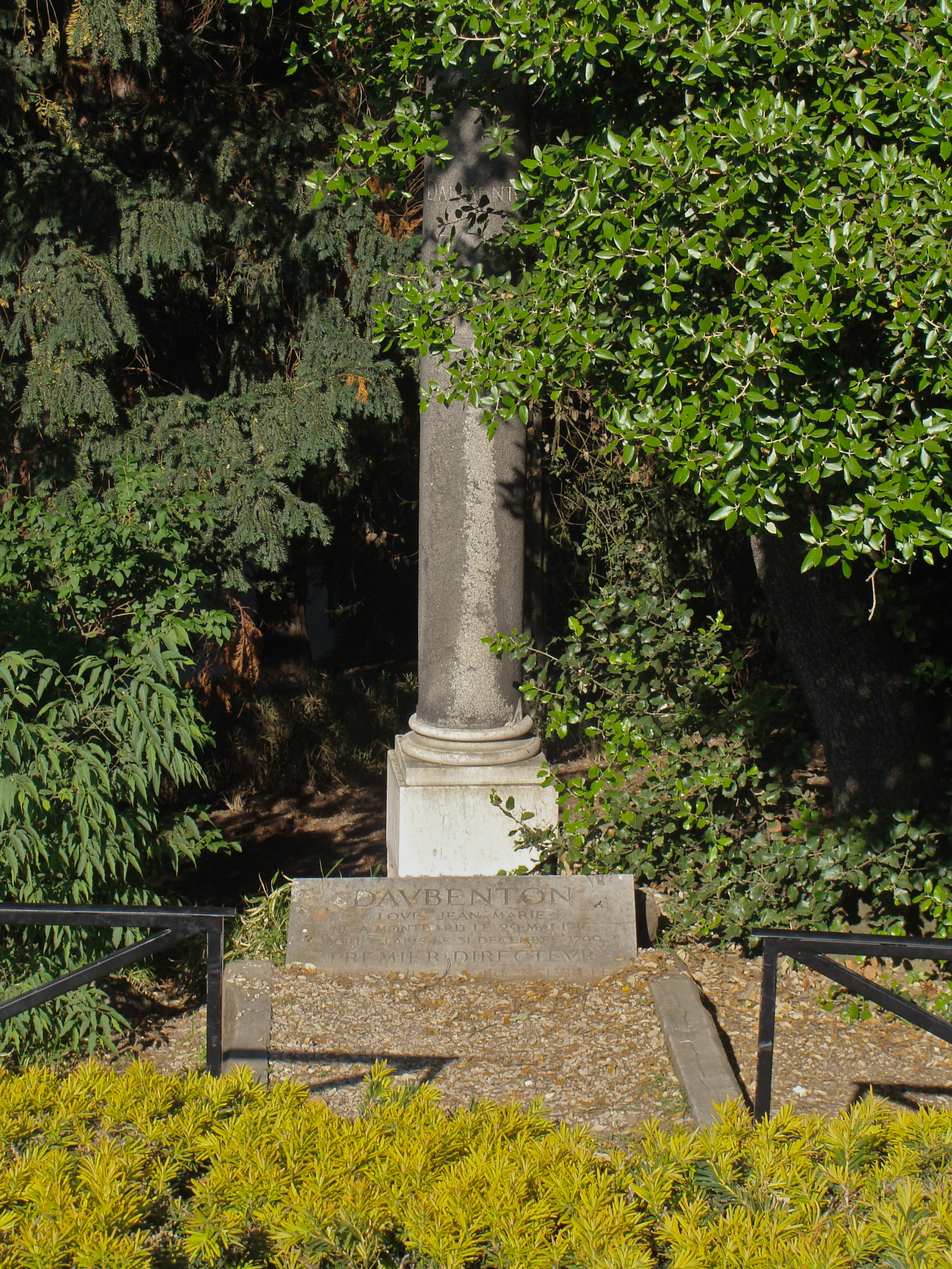 the grave of Louis DAUBENTON (1716-1799), famous french botanist, first Director of the Museum d'Histoire Naturelle, Jardin des Plantes, Paris, France